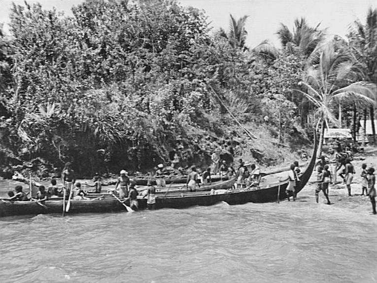 Local men carry an injured U.S. airman to two native canoes at the water's edge at the part of Choiseul (Lauru) Island, Solomon Islands, known as Boe Boe. In the far right of the photograph is Sergeant Carden Seton, AIF (later Captain Seton DCM) a Coastwatcher on the island from October 1942 to March 1944. The canoes subsequently moved out to meet a U.S. seaplane (a `Dumbo' mission) which also brought in stores for the Coastwatchers.